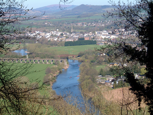 Monmouth from Livox Wood. The River Wye leads the eye, past the dismantled/disused railway bridges, to the spire of St Mary's Church, in Church Street.